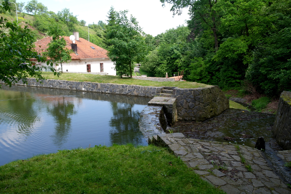 Maltese mill, 10/231Plzeňská str., Motol, Prague 5, the capital city Prague. The mill is located at Mill pond in the southern part of the natural sights Calvary in Motol. It was first mentioned in 1574 as a Tomanovský mill. During the Thirty Year War it was abandoned. Later it was owned by Sovereign Military Order of Malta.